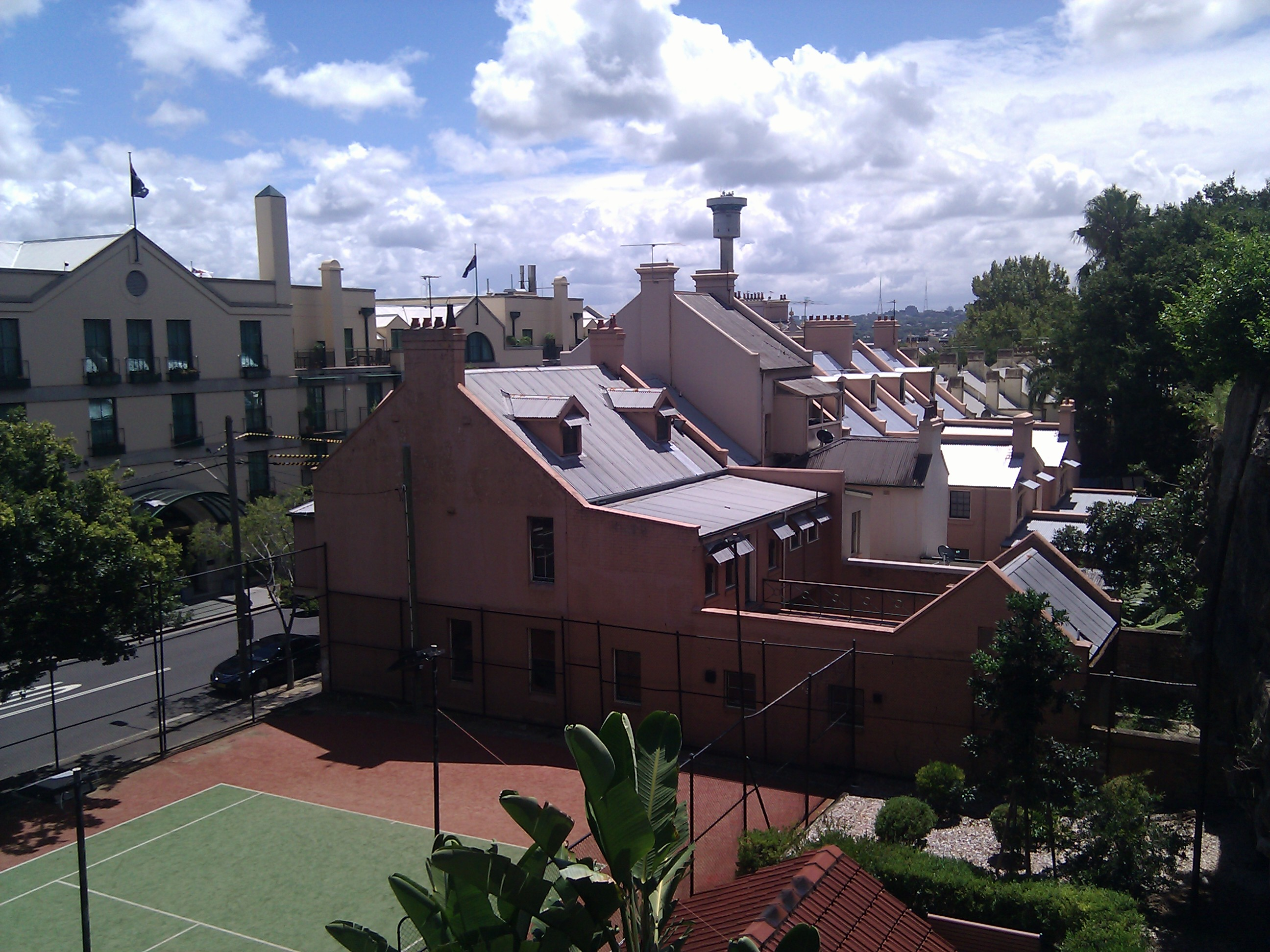 Overlooking Toxteth (centre), on Kent Street, Millers Point, in the City of Sydney, New South Wales, Australia